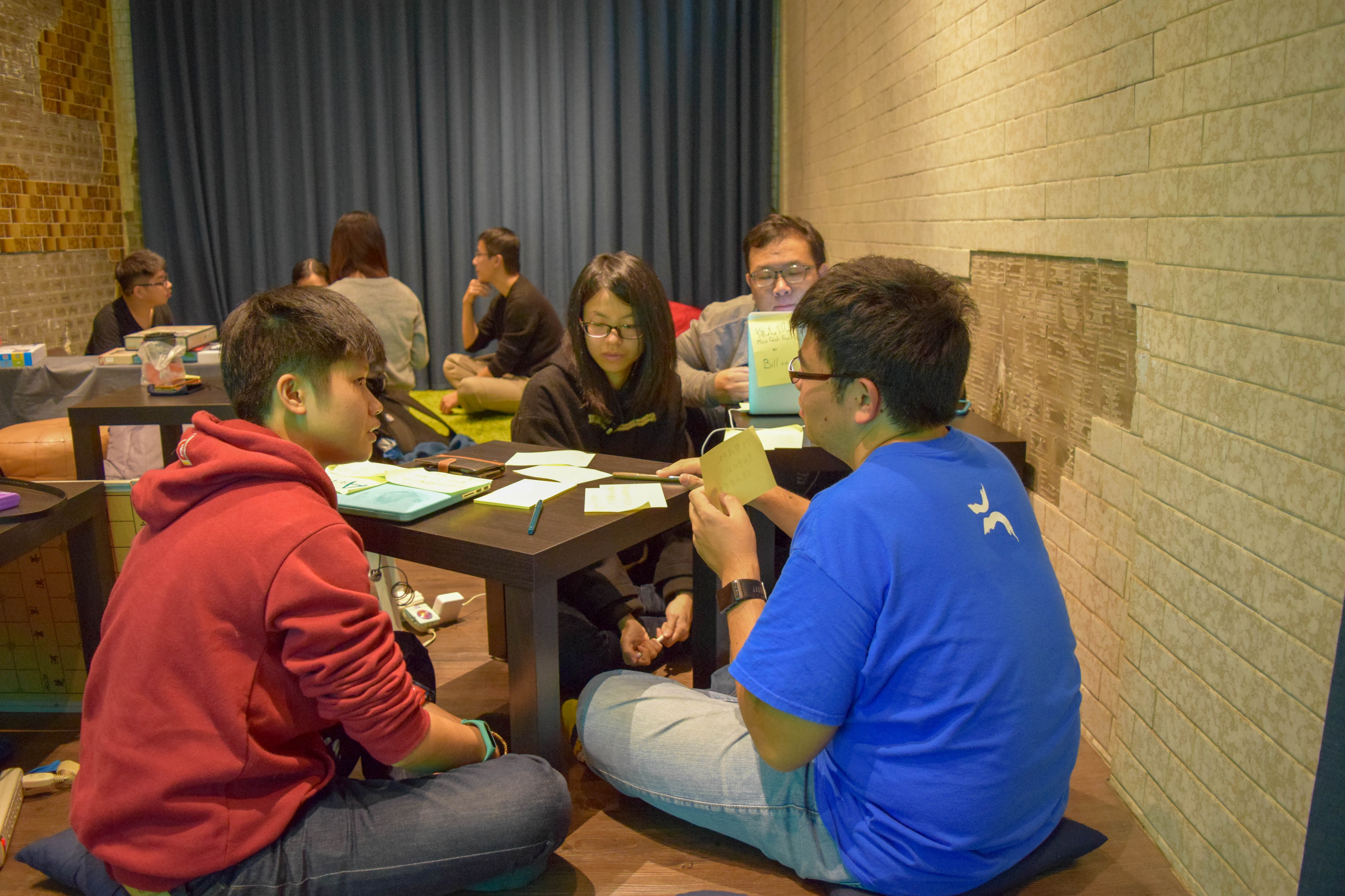 Participants take part in a problem and objective analysis activity